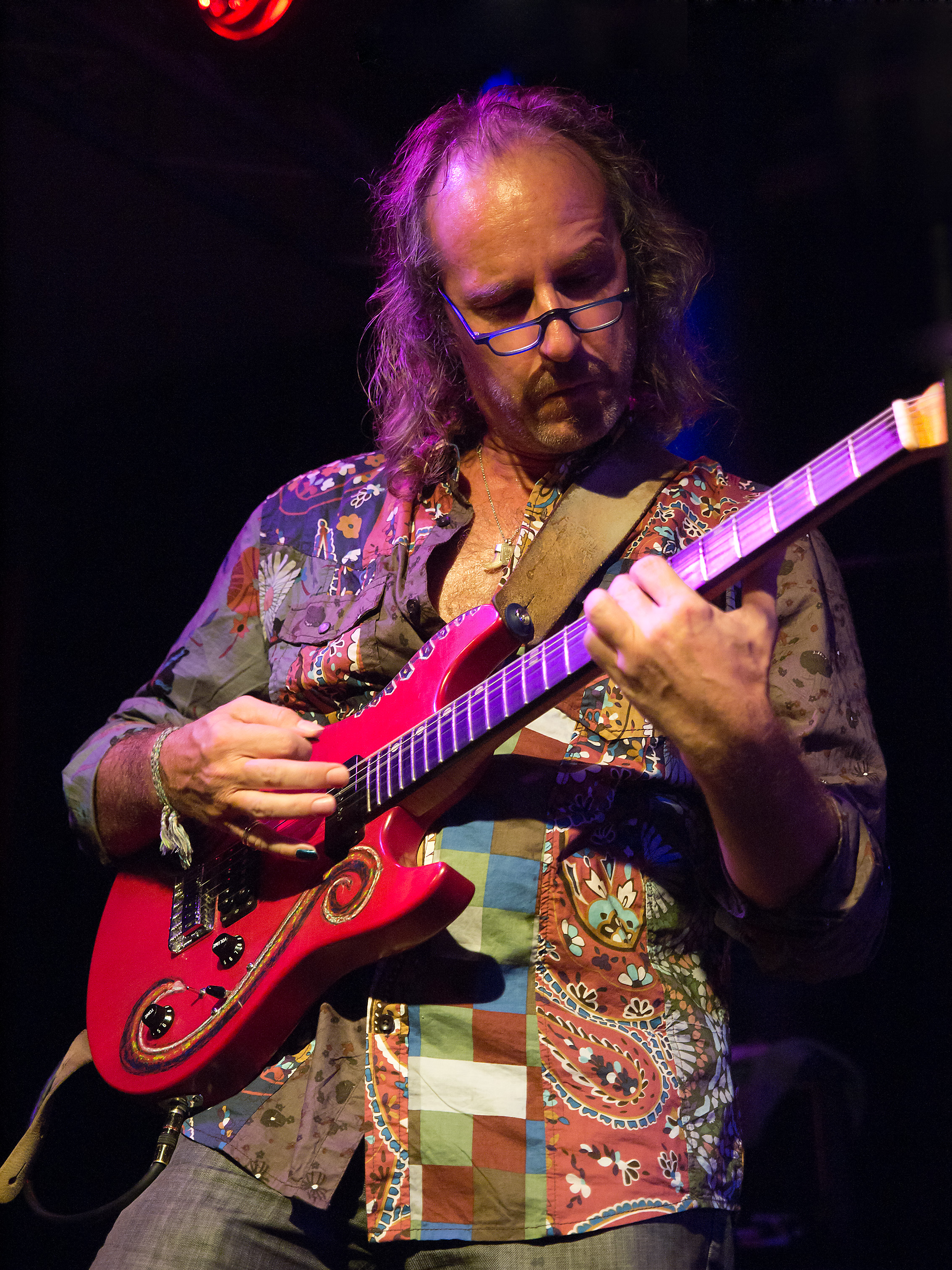 Peter Wölpl, Jazz guitarist; Picture taken in Jazz Club Unterfahrt, Munich/Bavaria